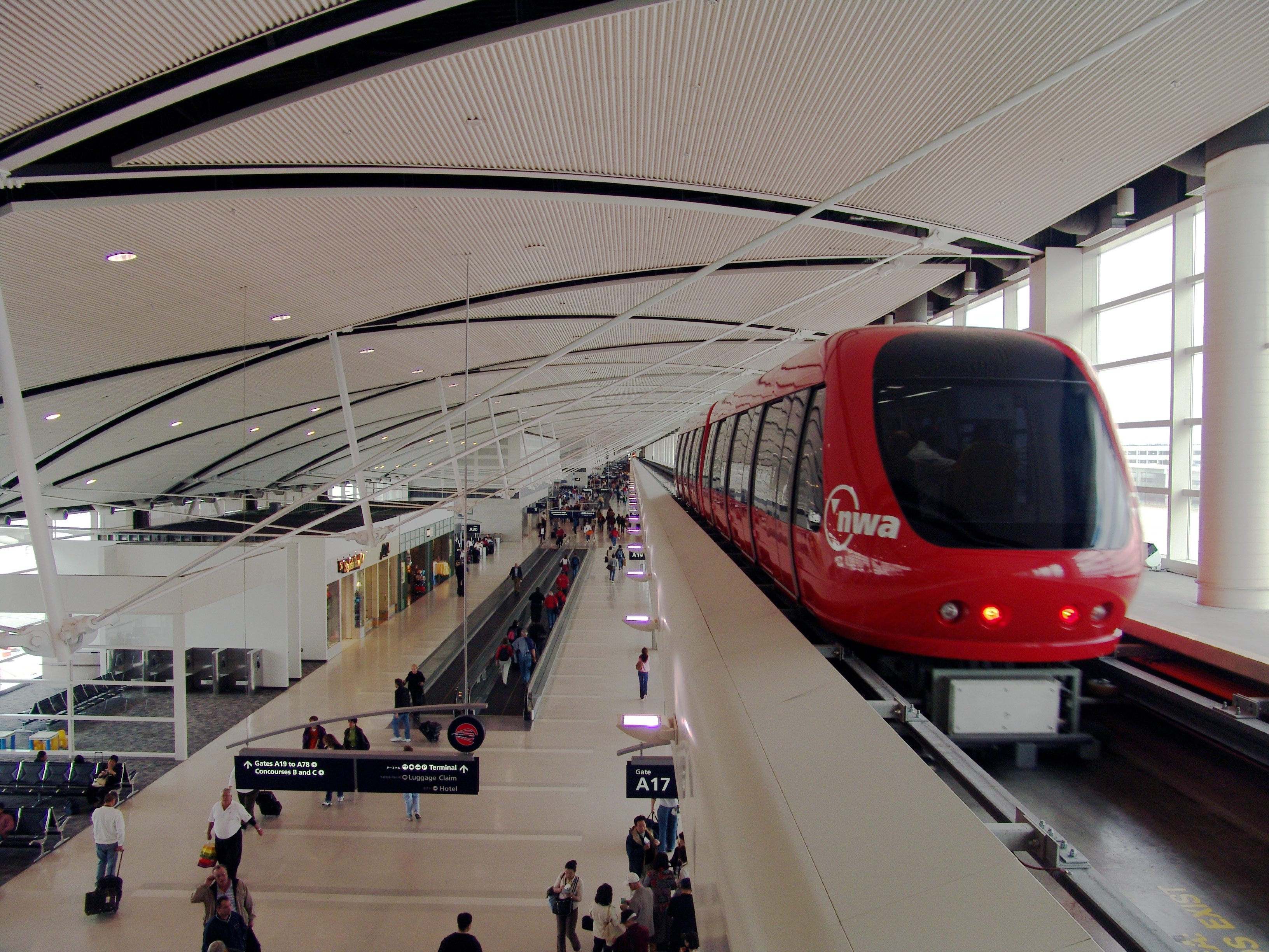 The ExpressTram inside the Detroit International Airport Edward H. McNamara Terminal